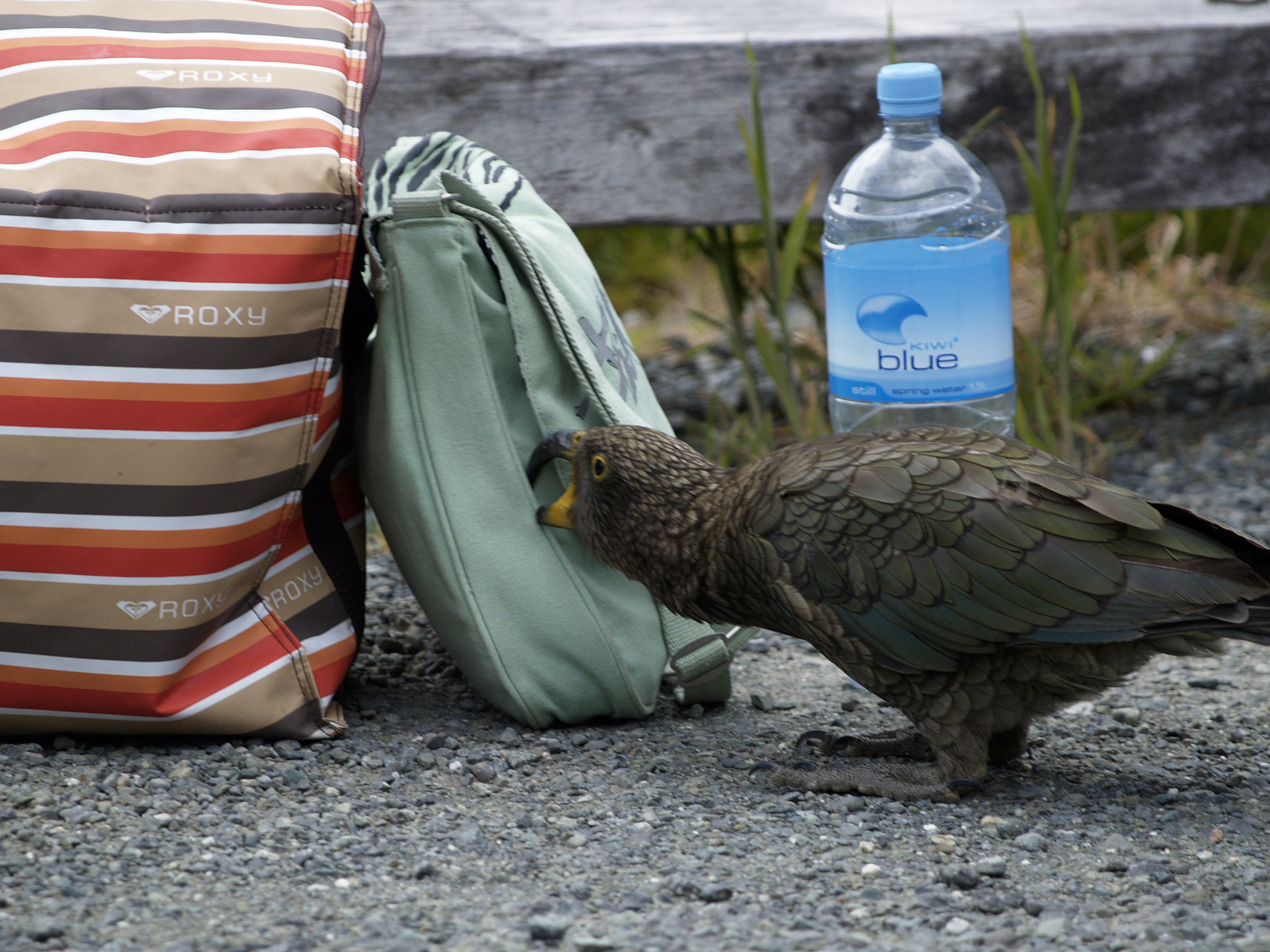 Kea, interested into a bag, road to Milford Sound, South Island, New Zealand